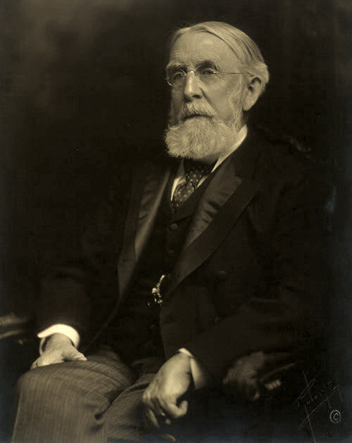 Picture of Cornell University's co-founder and first president Andrew Dickson White in 1910.